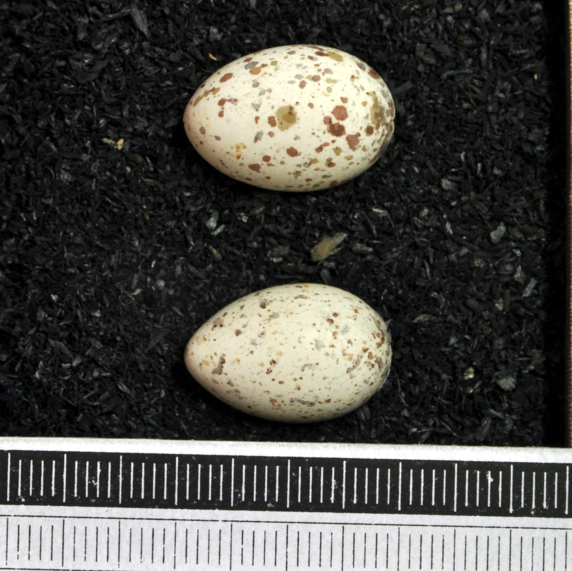 Village weaver Ploceus cucullatus , egg, Coll. Museum Wiesbaden